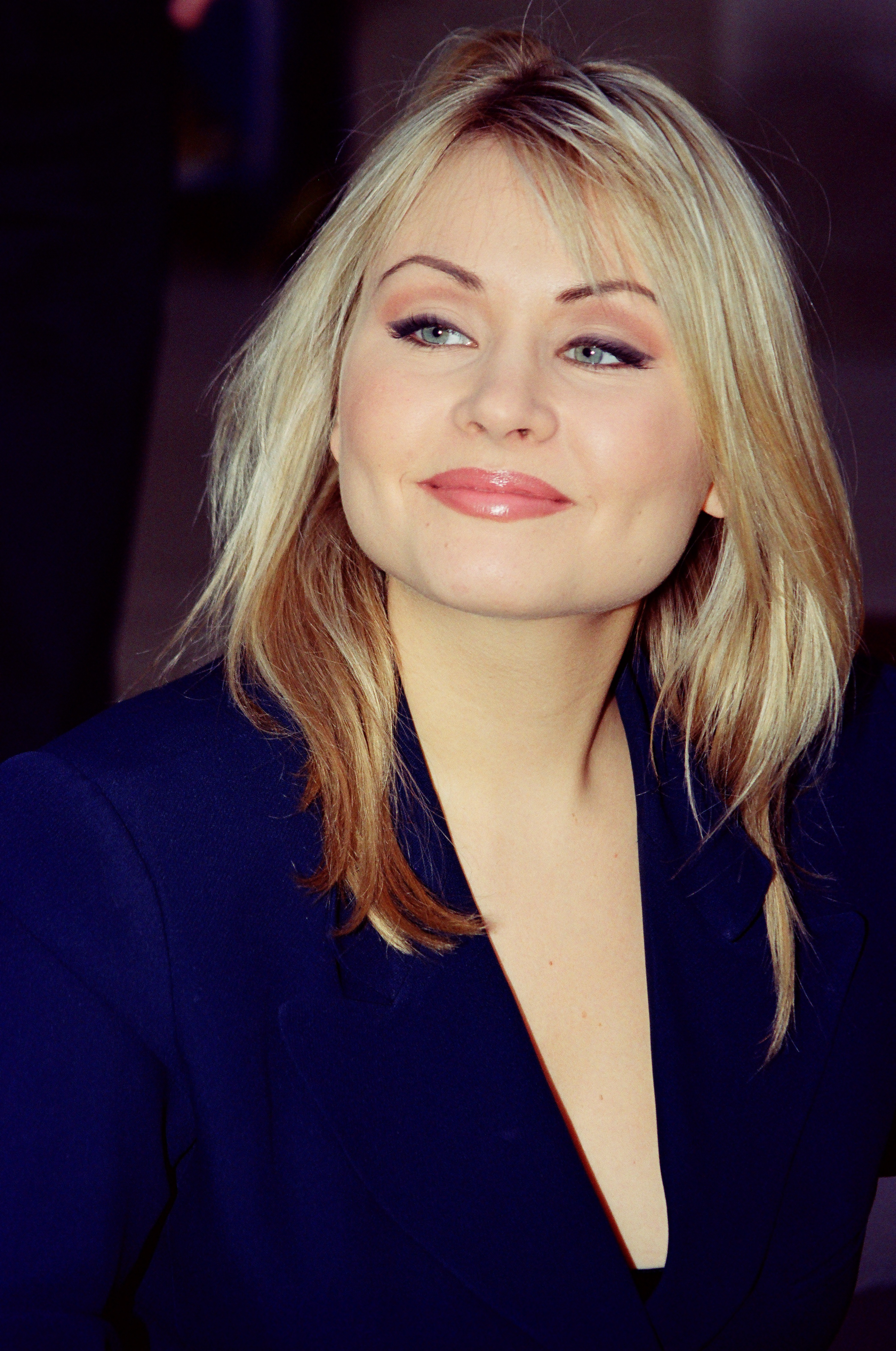 Mitsou at an Autograph Session in Gatineau Canada in December 1993